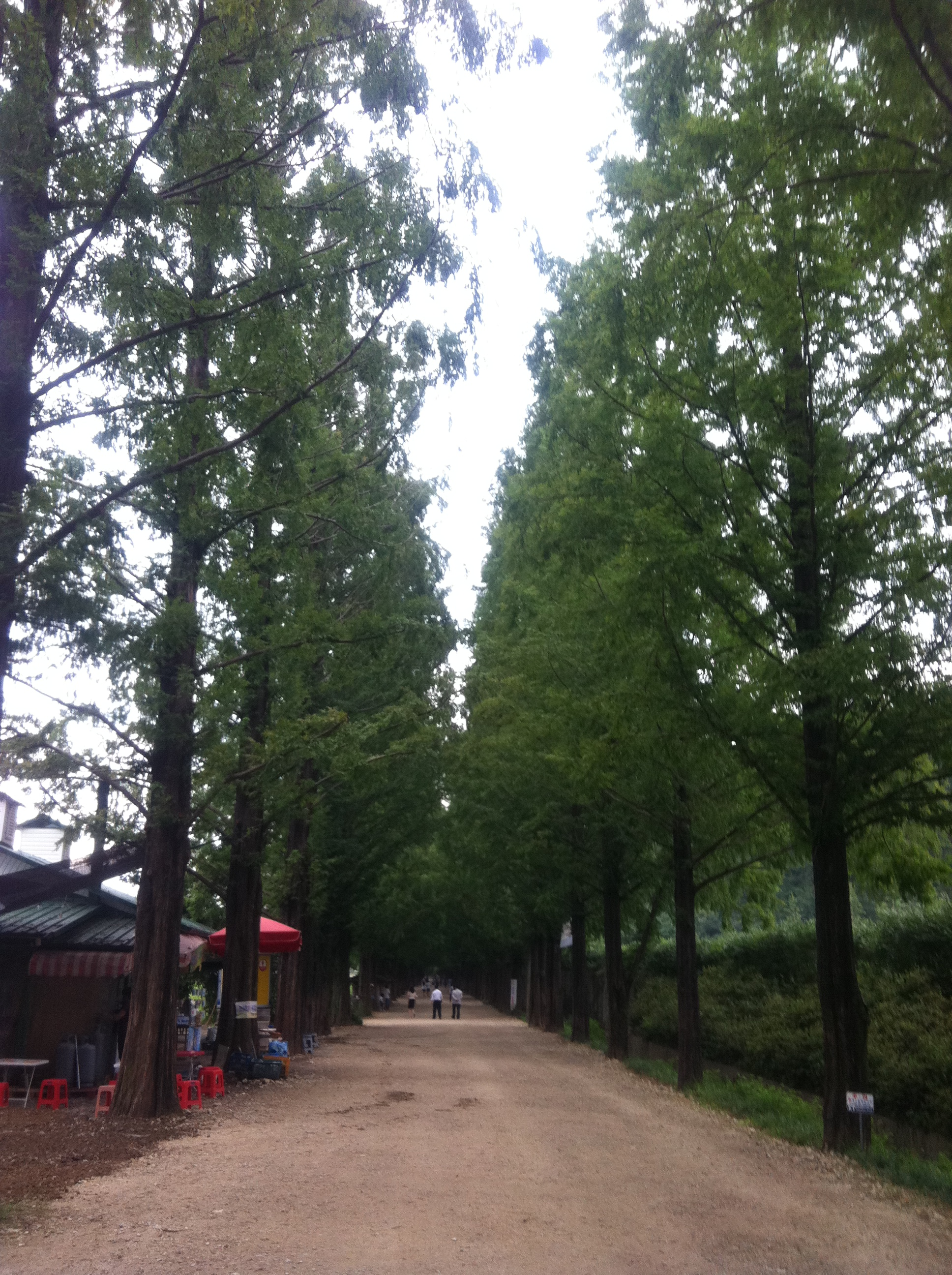 Metasequoia trees in July